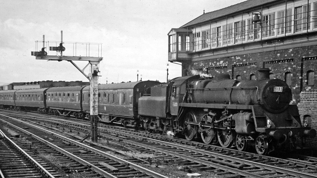 Up express entering Rhyl. View westward, towards Llandudno Junction, Bangor and Holyhead. A Summer Saturday Llanfairfechan - Stoke-on-Trent express passes beside the large Rhyl No. 2 Box as it approaches the Up platform on the Up Slow line (there were no platforms for the Fast lines in the centre), headed by BR Standard 4MT 4-6-0 No. 75010. (Note the bell on the signalbox to warn staff and the extra look-out windows).